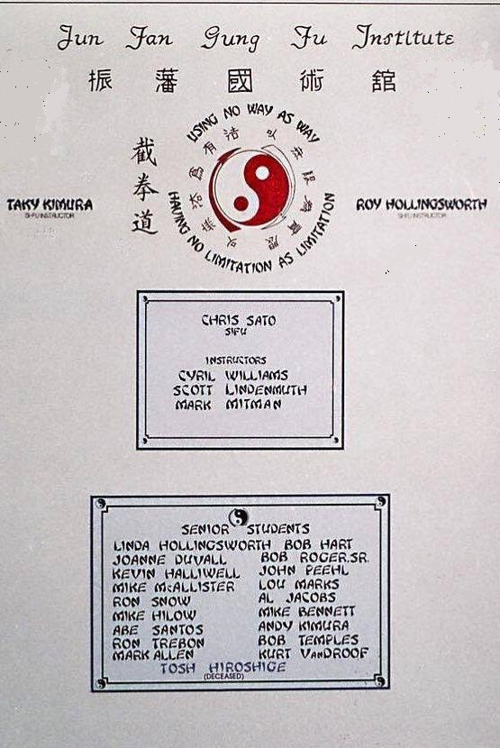 This is an electronic image of the original, framed instructor lineage chart for Bruce Lee's Seattle Jun Fan Gung Fu Institute.